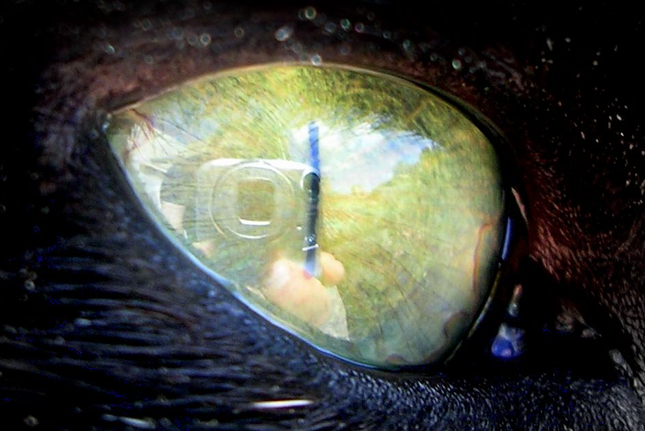 A closeup of cat's eye with the reflection of the photographer.